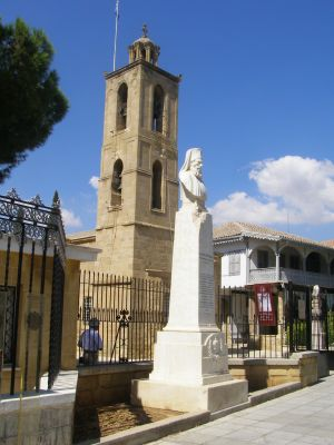 The Agios Ioannis church in Nicosia, Cyprus